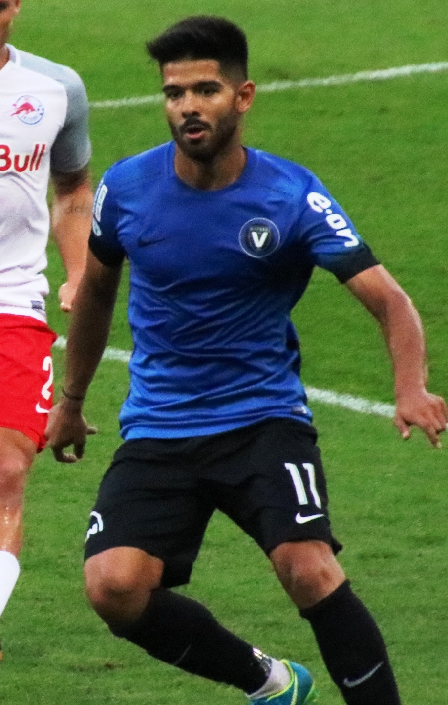 Euroleague play off 2nd leg